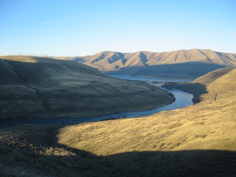 Deschutes River in Oregon, at Deschutes River State Recreation Area. This is at the confluence with the Columbia River, visible in the background.